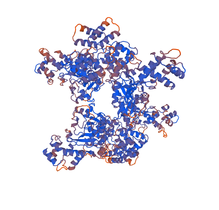 Malonil-CoA descarboxilasa mitocondrial humà